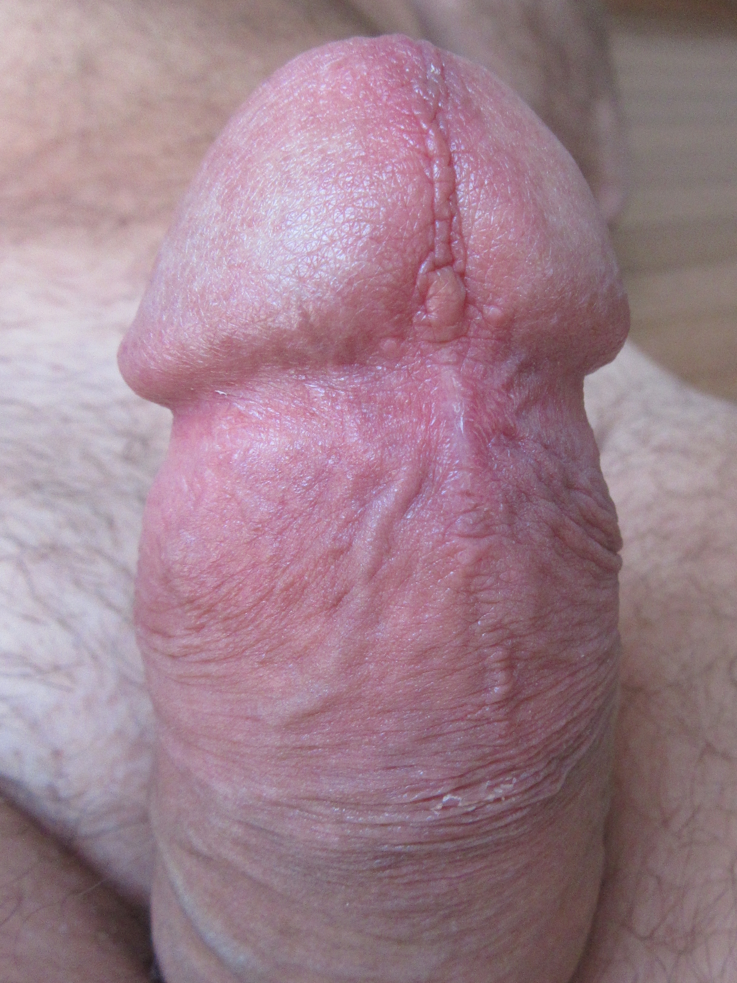 Frenuloplasty of prepuce of penis